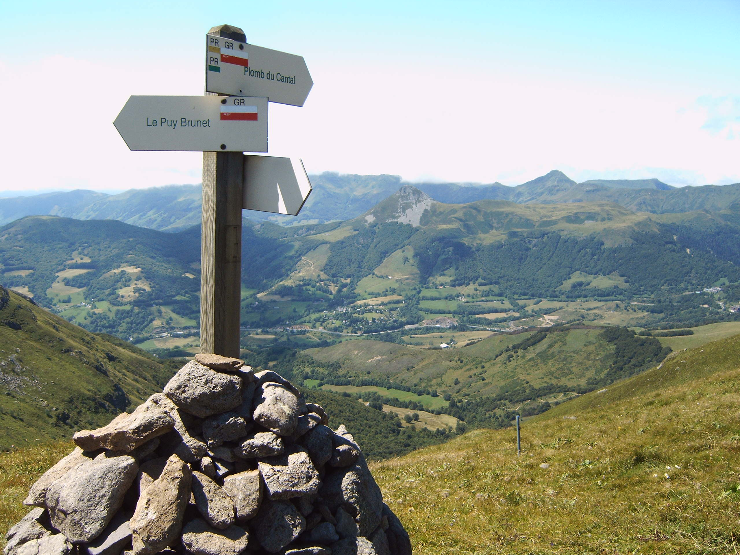 View on Puy Griou, Cantal, France, from GR 400 hiking trail, just below the Plomb du Cantal. The Puy Mary is visible to the right of the Puy Griou.